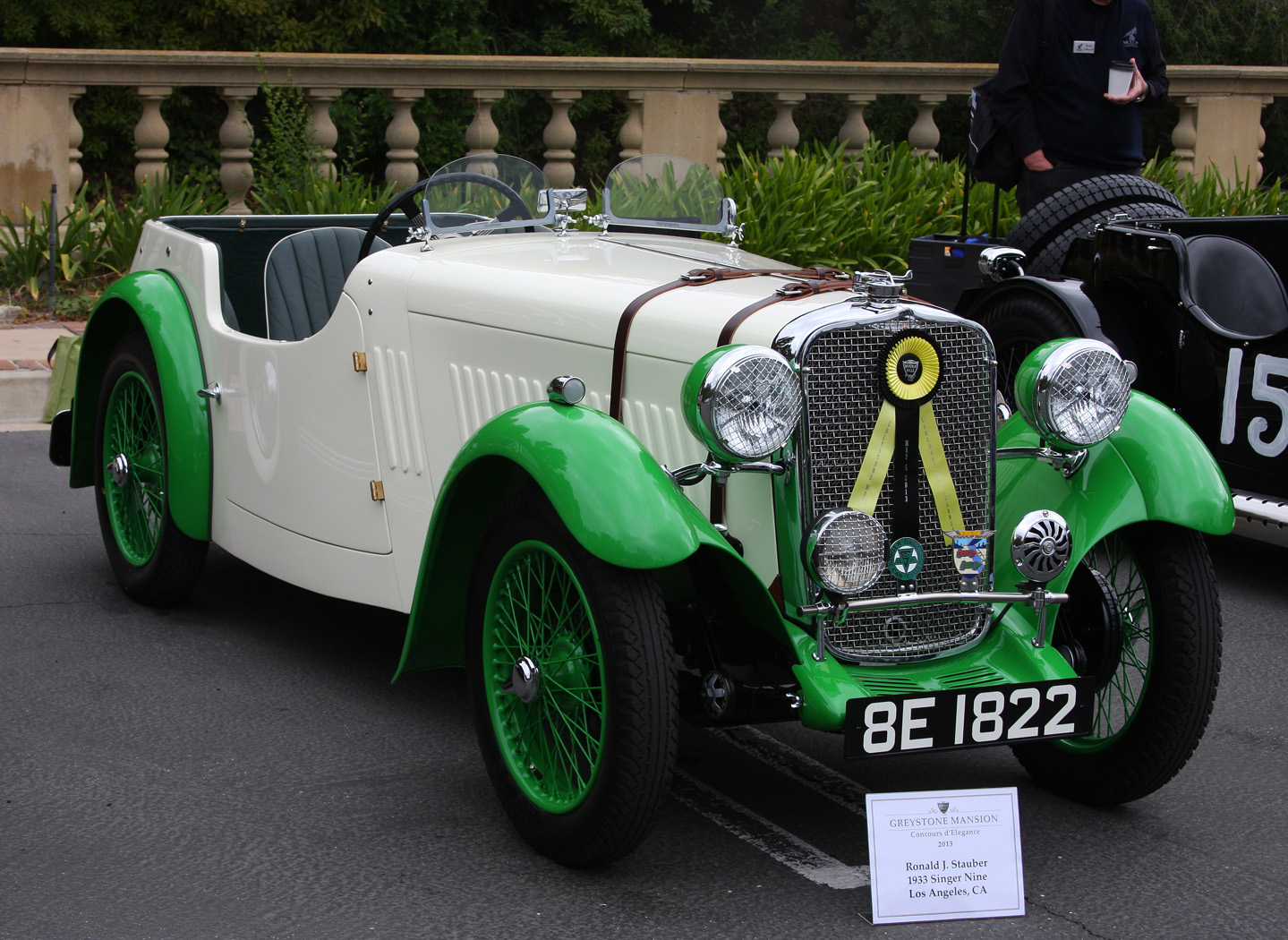 1933 Singer Nine 2013 Greystone Mansion Concours d'Elegance, Beverly Hills, CA